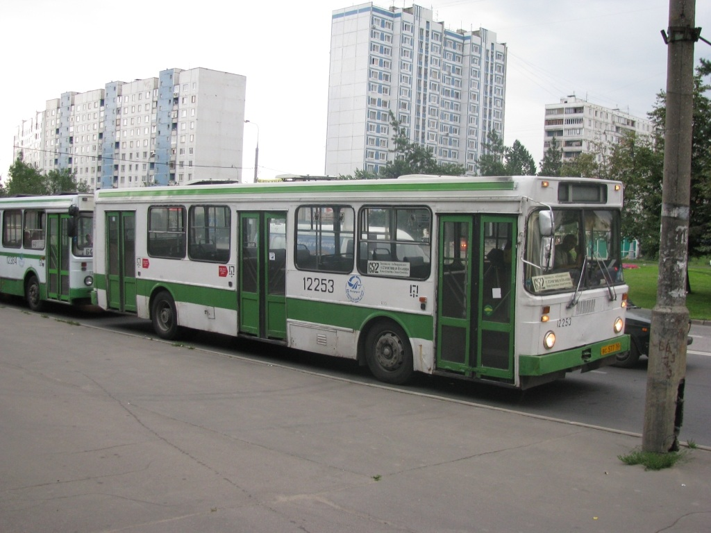 Bus YaAZ-5267 #12253